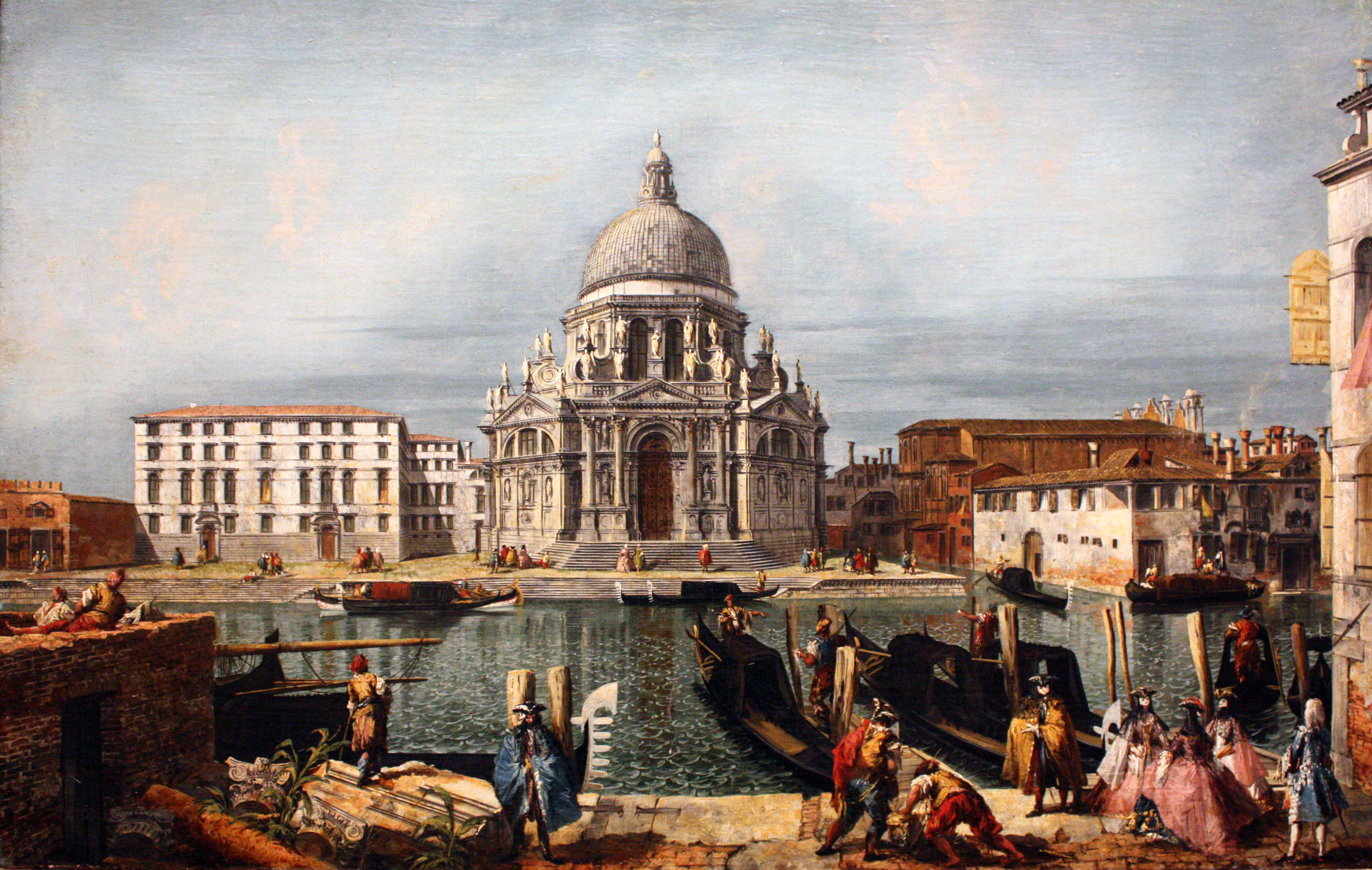 Church of Santa Maria della Salute, Venice